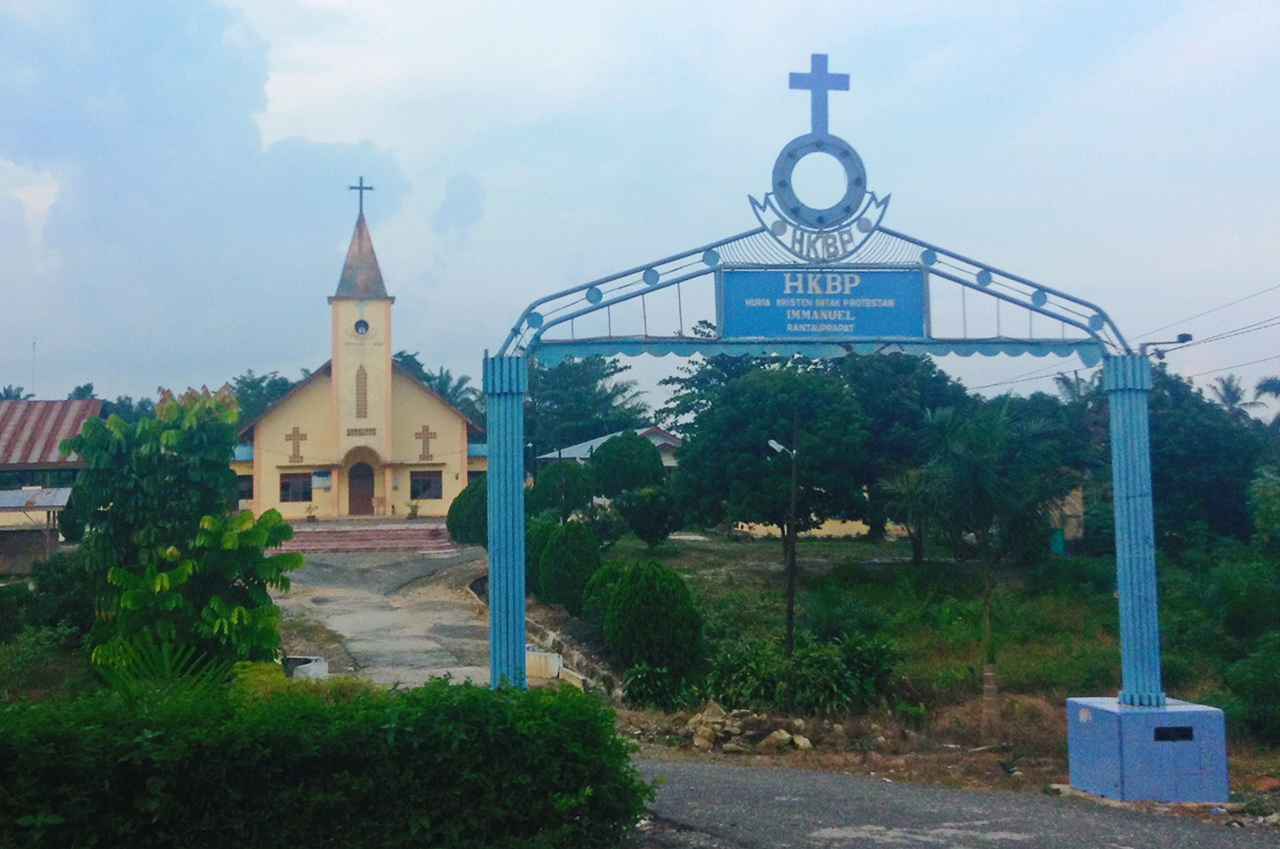 HKBP Immanuel Rantauprapat, Church in Rantauprapat, Labuhanbatu